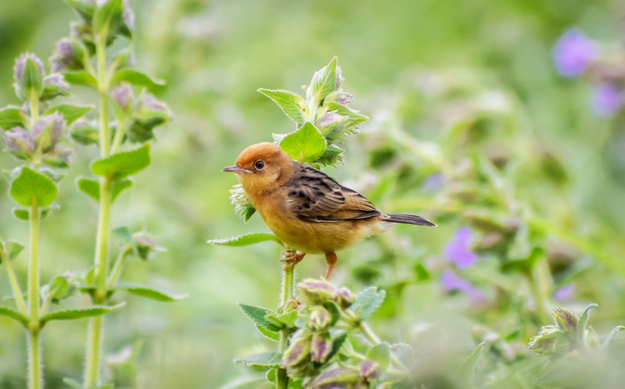 A breeding male Golden-headed cisticola found in the Western Ghats of Karnataka